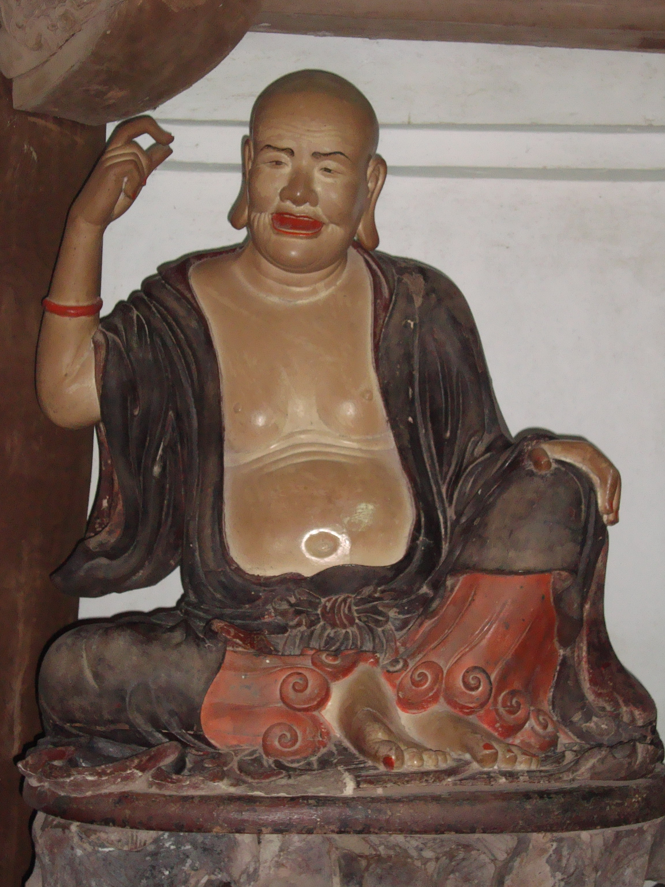 The smiling Arhat, one of the eighteen arhat statues at Tây Phương Buddhist Temple, Thạch Thất District, Hanoi, Vietnam.